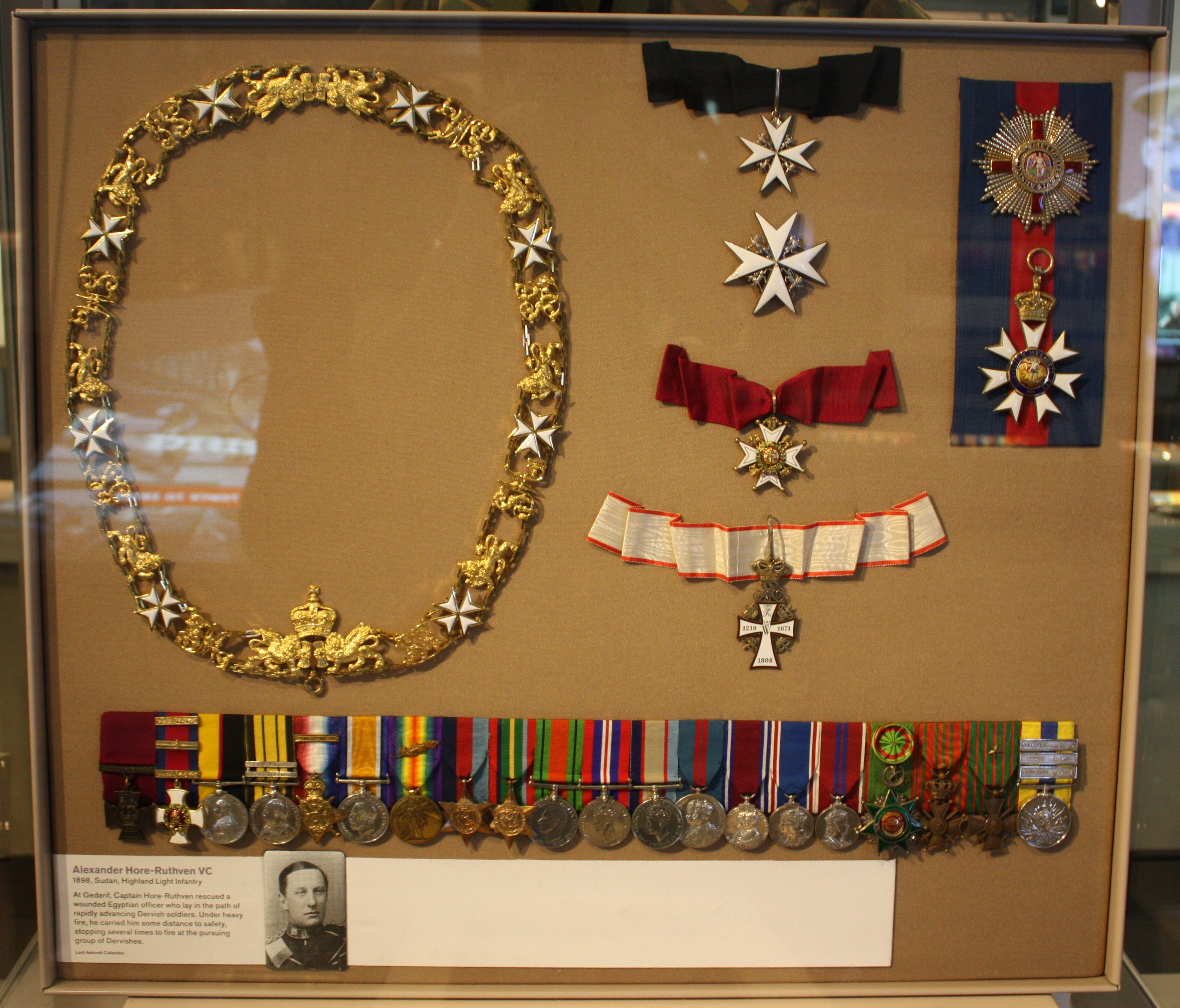 The Orders, Medals and Decorations of Alexander Hore-Ruthven, 1st Earl of Gowrie. A highly decorated soldier and later a Governor-General of Australia. Hore-Ruthven's medals are on display in the Ashcroft Gallery in the Imperial War Museum London.